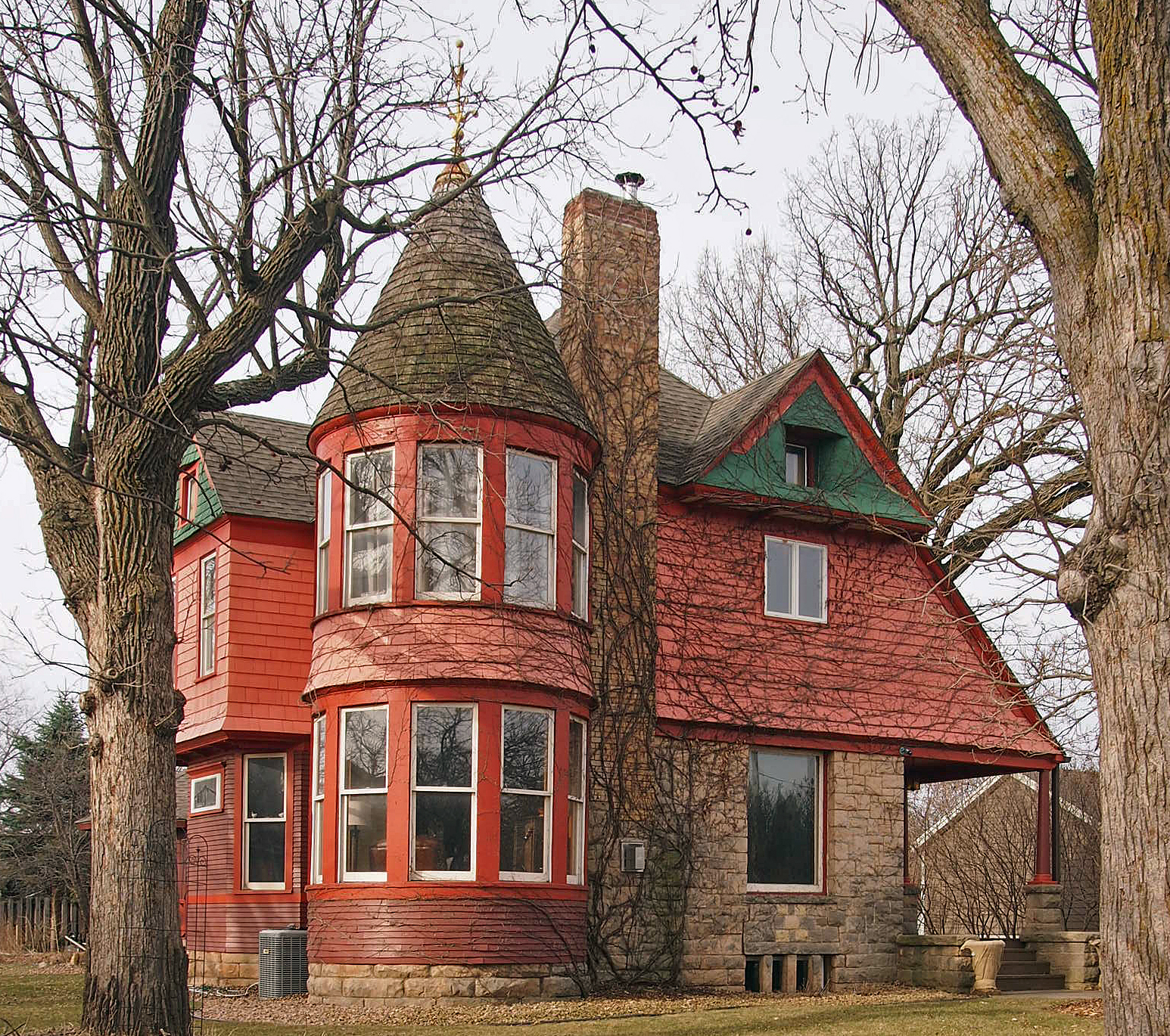 Nicherson-Tarbox House, 514 E Broadway, Monticello, Minnesota, USA. Viewed from the northeast.